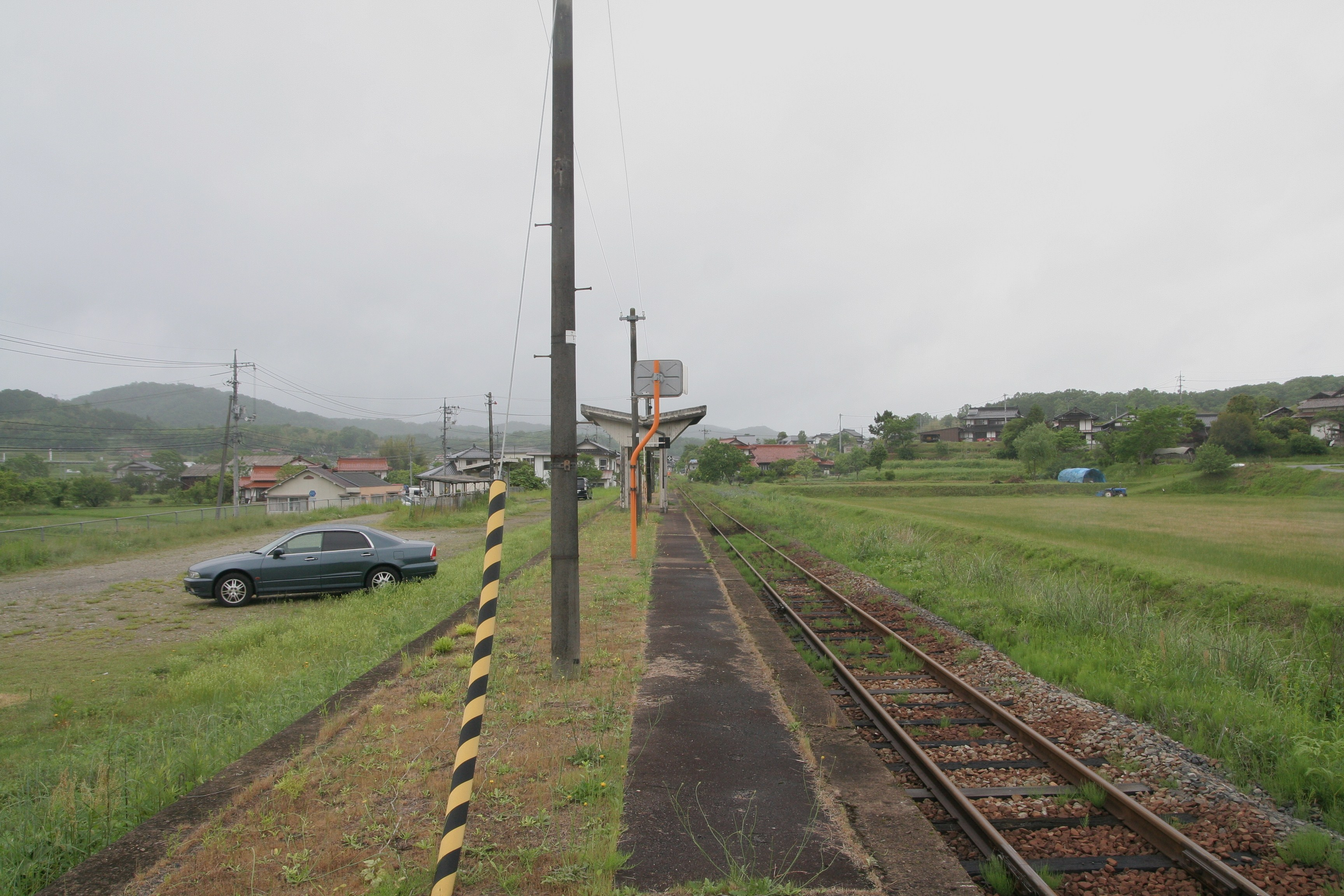 JR West Geibi Line Shimo-Wachi Station enclosure